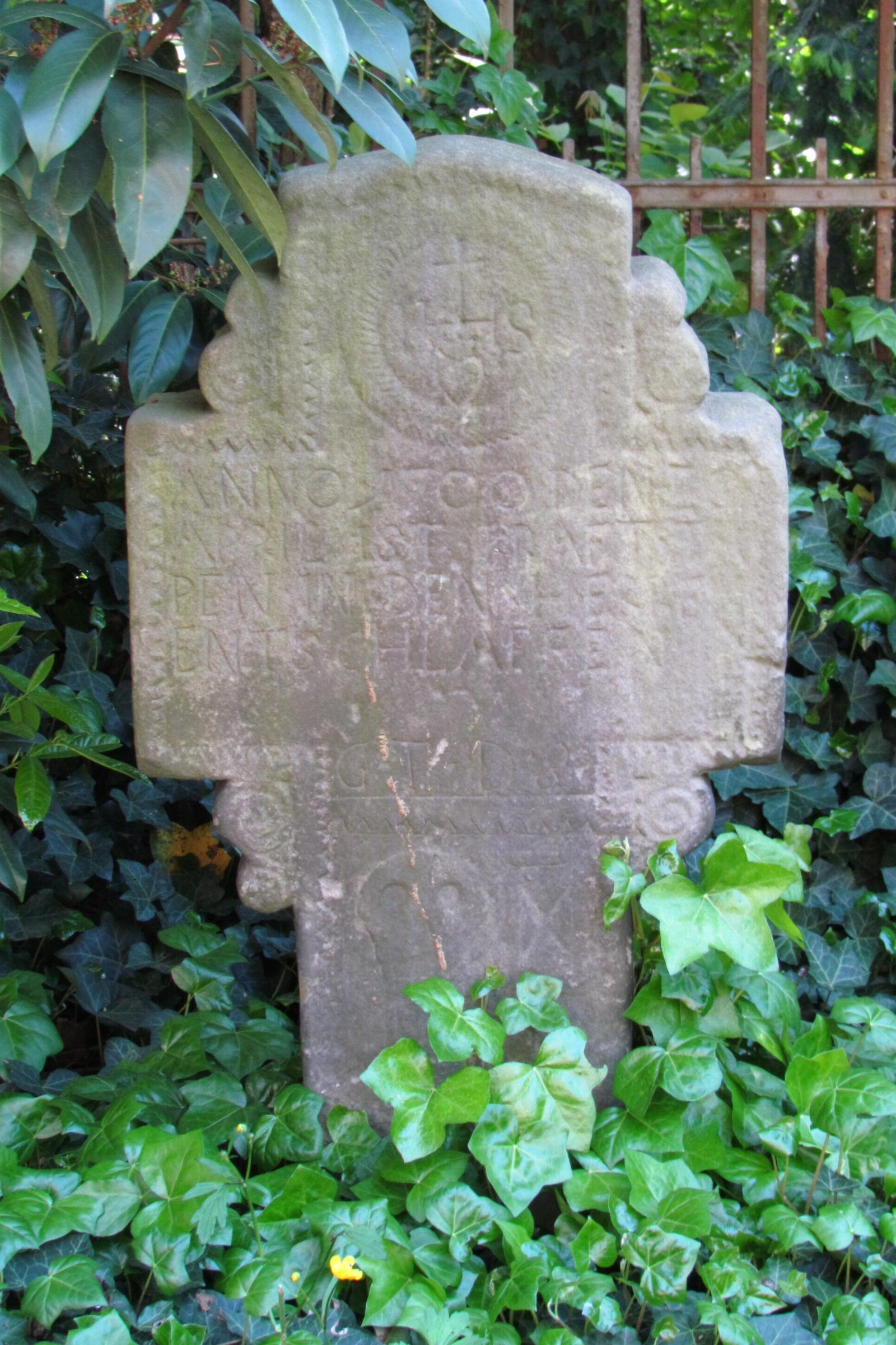 This is a photograph of an architectural monument.It is on the list of cultural monuments of Korschenbroich